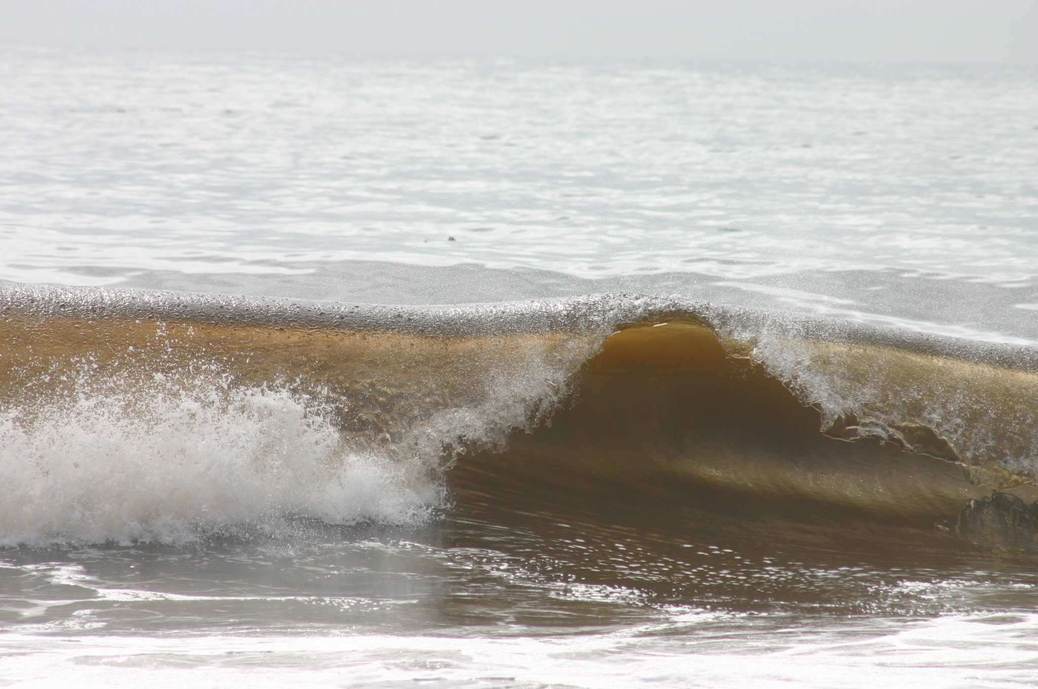 As a wave develops, it curls. Eventually, the curvature is too much to support the water at the top of the wave. Water pours down from the top forming a mini-waterfall, like a veil of water droplets covering the incoming wave. This breaking up of the wavefront then migrates outwards until the whole wavefront ends up in a wall of splash. This photo shows the moment when two breaking wavefronts just meet each other, one propagating from the left and goes rightward; the other one propagating from the right and goes leftward. The details of the wave is shown clearly with a backlit sunlight.